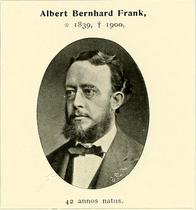 Portrait of German botanist Albert Bernhard Frank